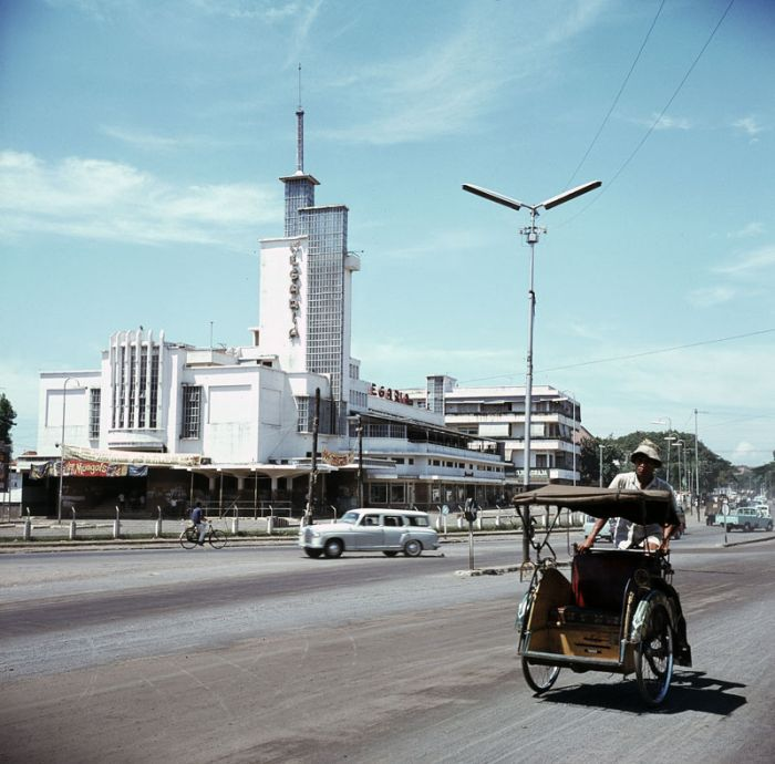 Becak in front of cinema Megaria